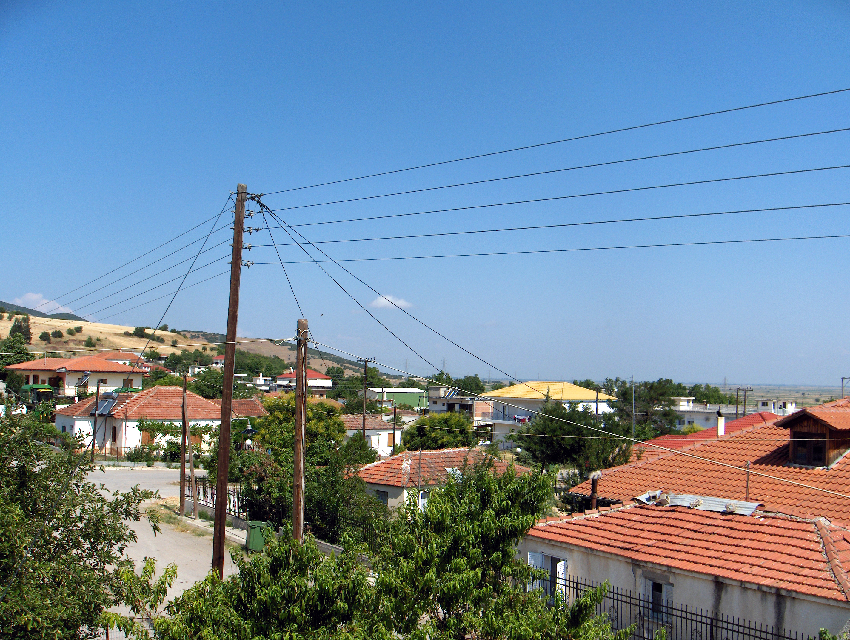 Ekkara. The village from inside towards northwest